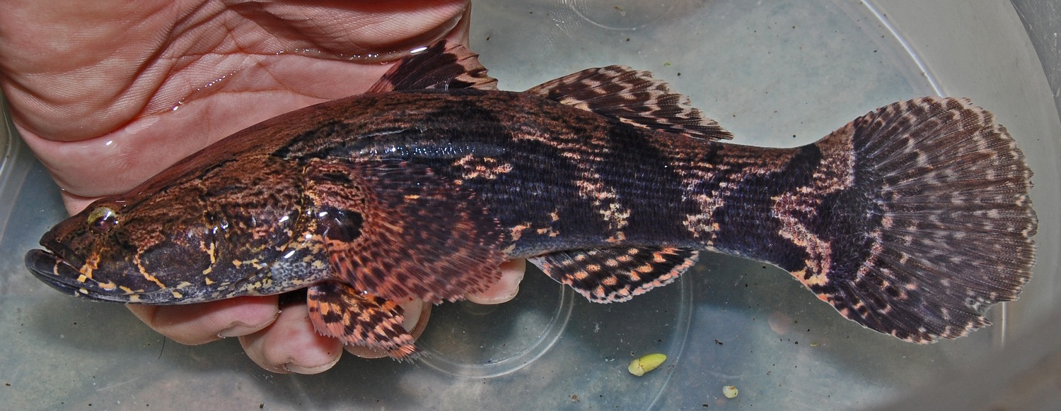 Oxyeleotris marmorata (standard length = 15 centimetres (5.9 in)), from Bogor, West Java, Indonesia